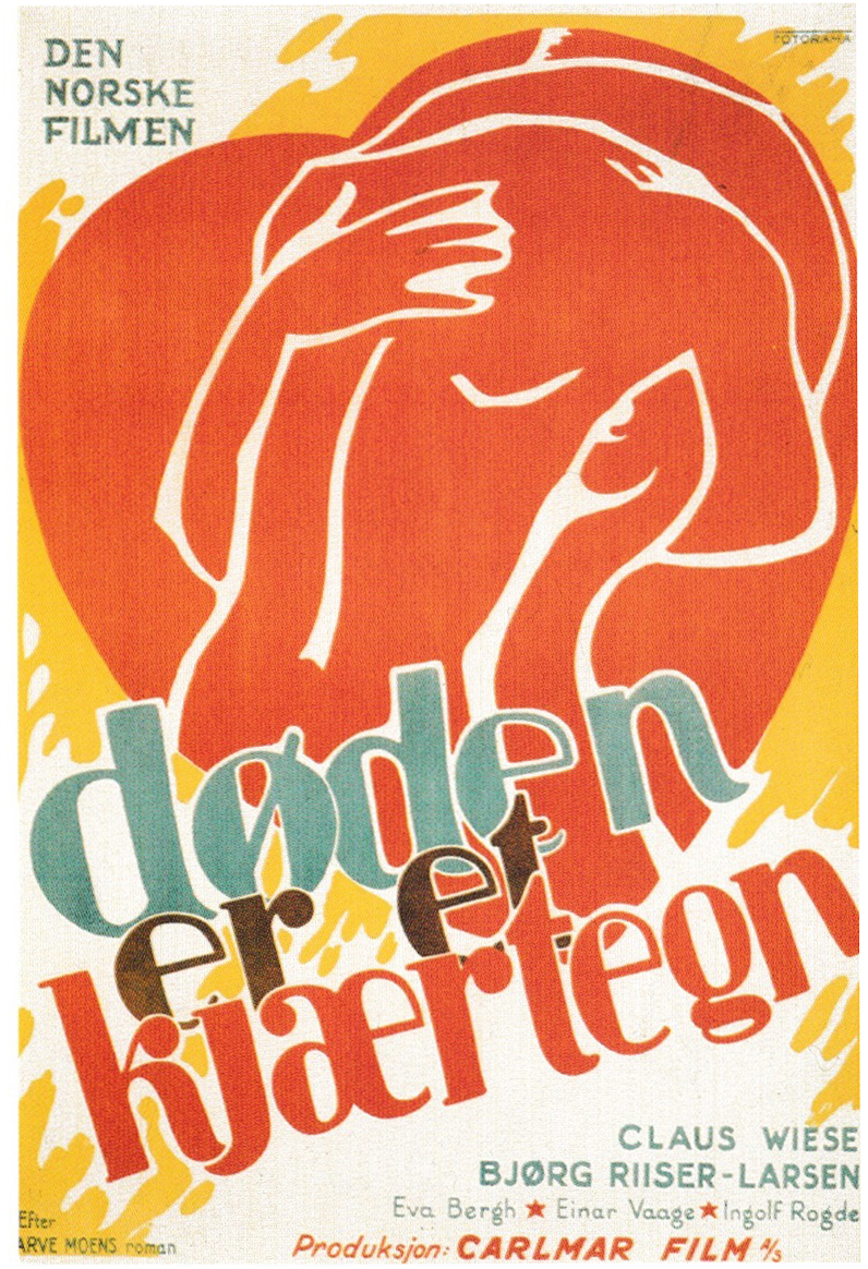 Poster for the Norwegian movie «Døden er et kjærtegn» (Death is a caress) by the Russian/Norwegian artist and scenographer Alexey Zaitzow